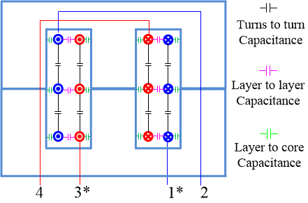 transformer parasitic capacitance